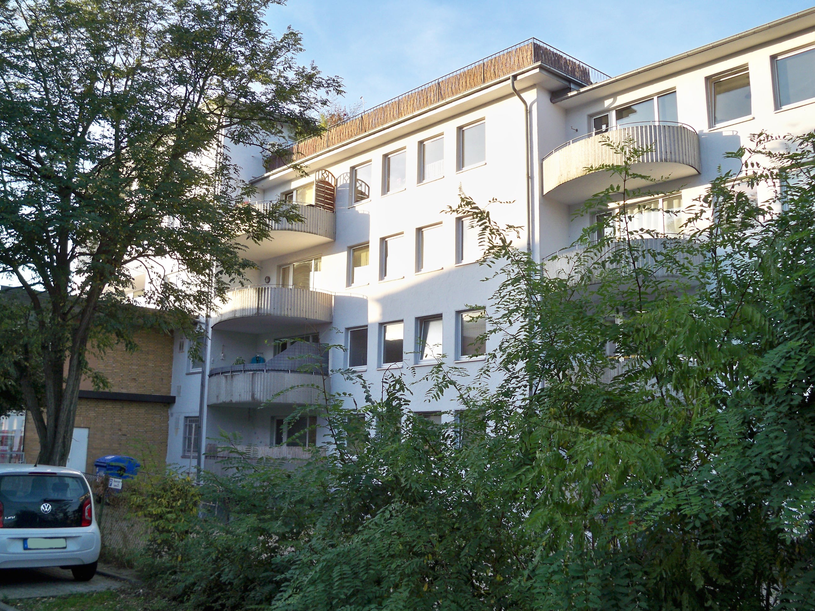 Wolfsburg, Lower Saxony, Rack building, seen from South East